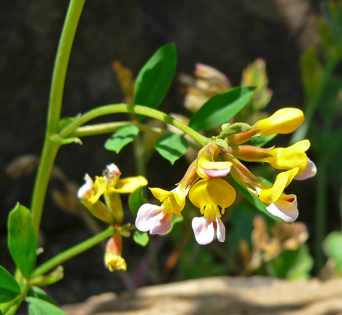 Photo of Lotus formosissima at the Regional Parks Botanic Garden, Berkeley, California